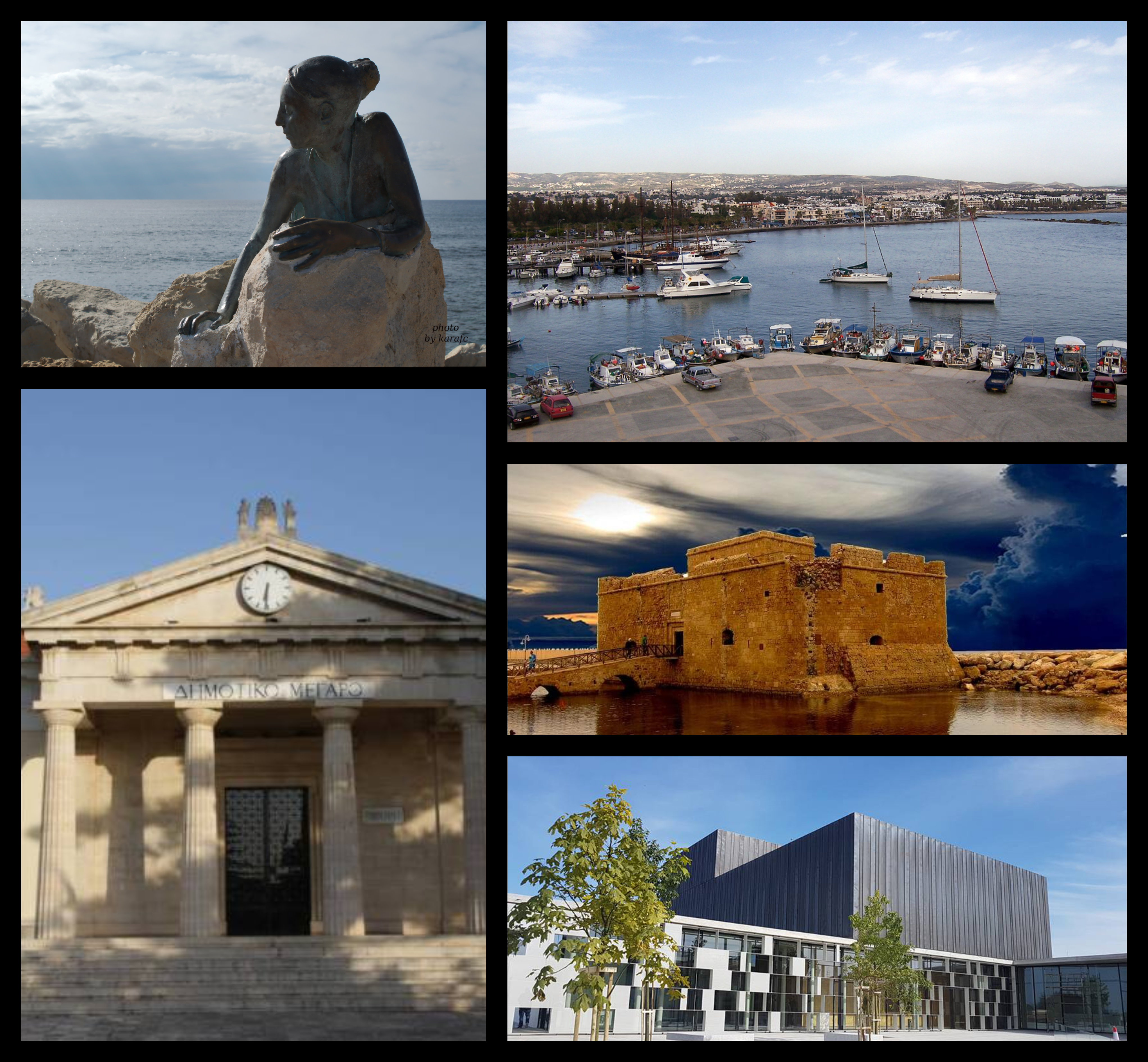 From upper left to lower right, (1) Modern Aphrodite, (2) Paphos city view, (3)Paphos city hall, (4) Medieval Castle, (5) Markideio Theatre.